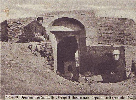 Noah's tomb in Nakhchivan. Old postcard